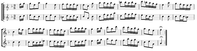 Passepied (excerpt) by Johann Christoph Schultze (1733 - 1813).